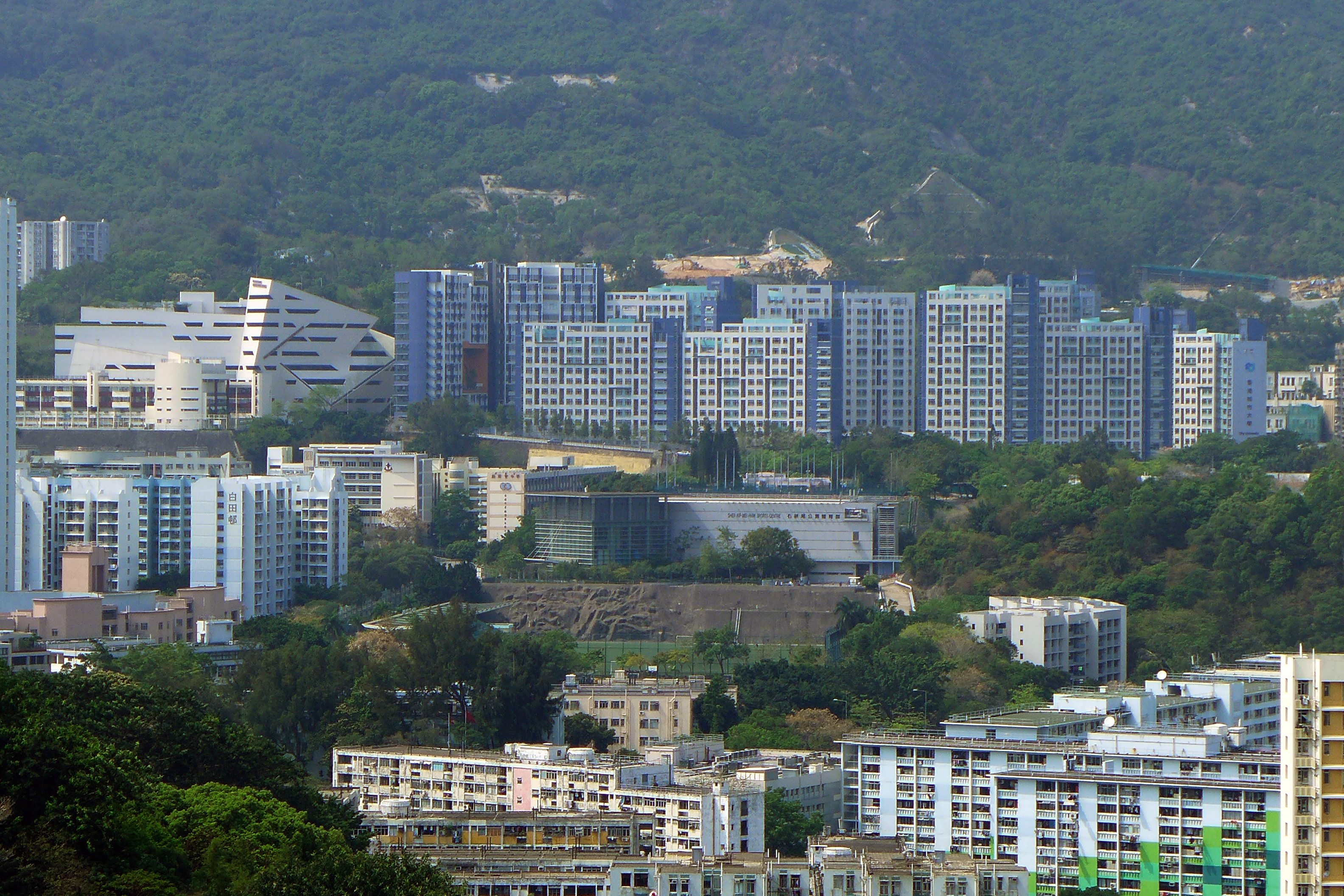 CityU Student Residence